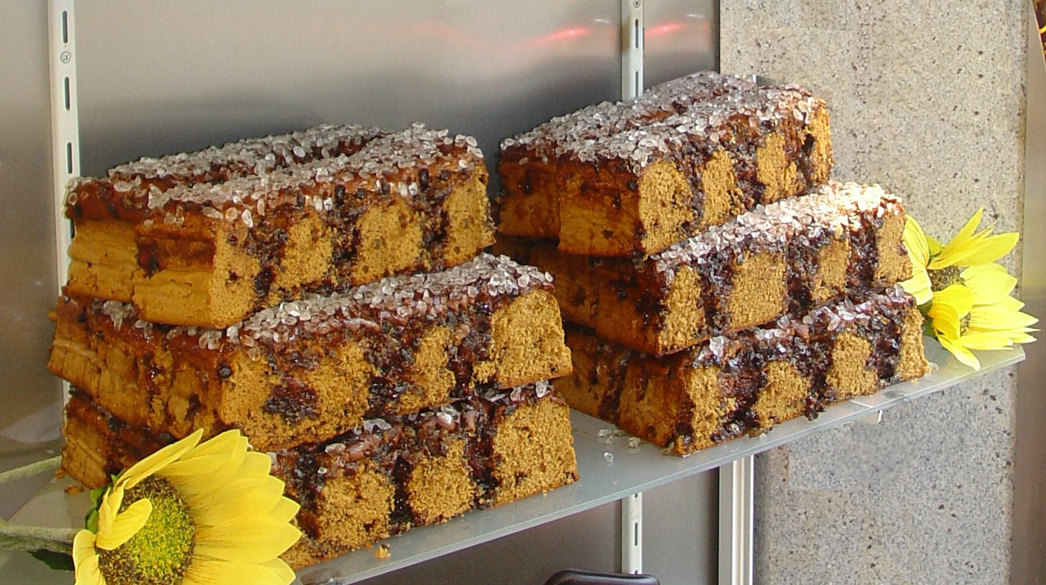 honey cake from Tiel, The Netherlands.